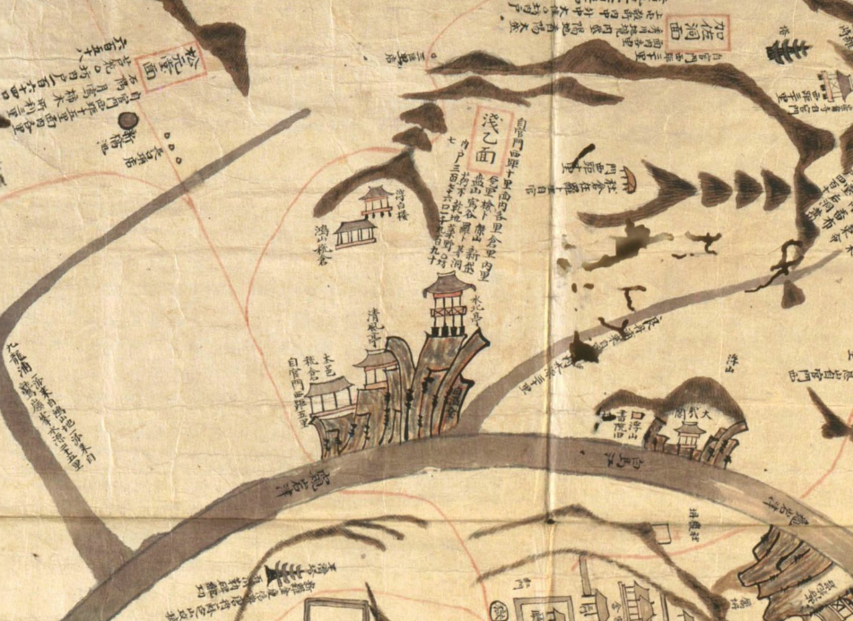 Old map of Buyeo County